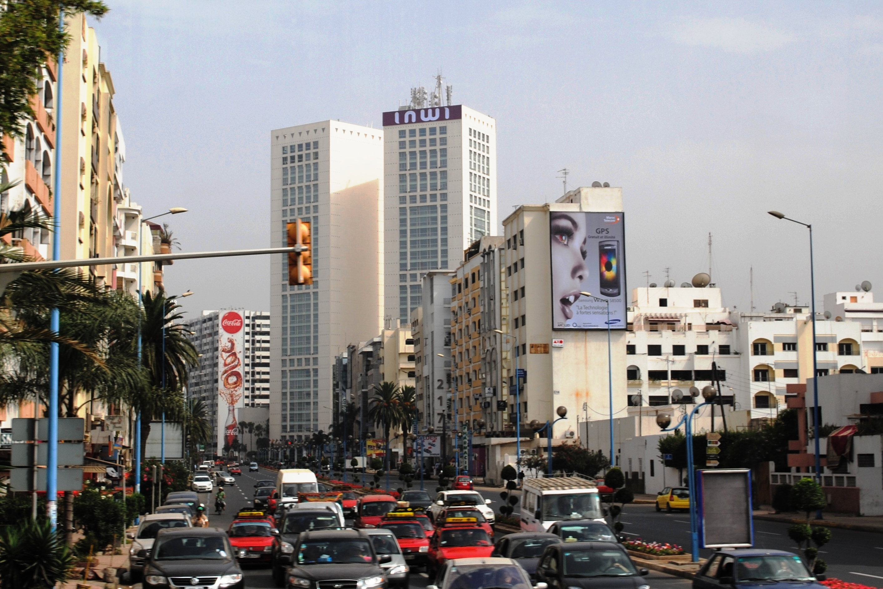 Twin Center, Boulevard Mohamed Zerktouni, Casablanca